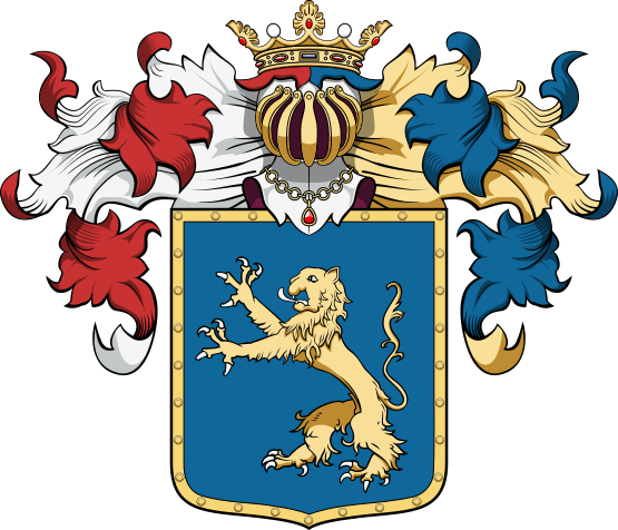 COA of Montgommery's family